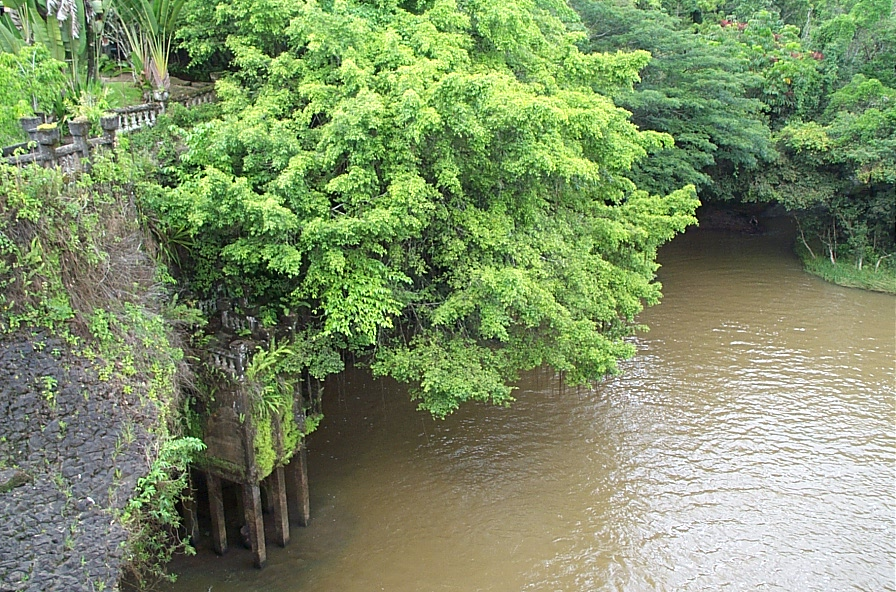 The Hydro Electric Power House from the swing bridge over Mena creek Falls